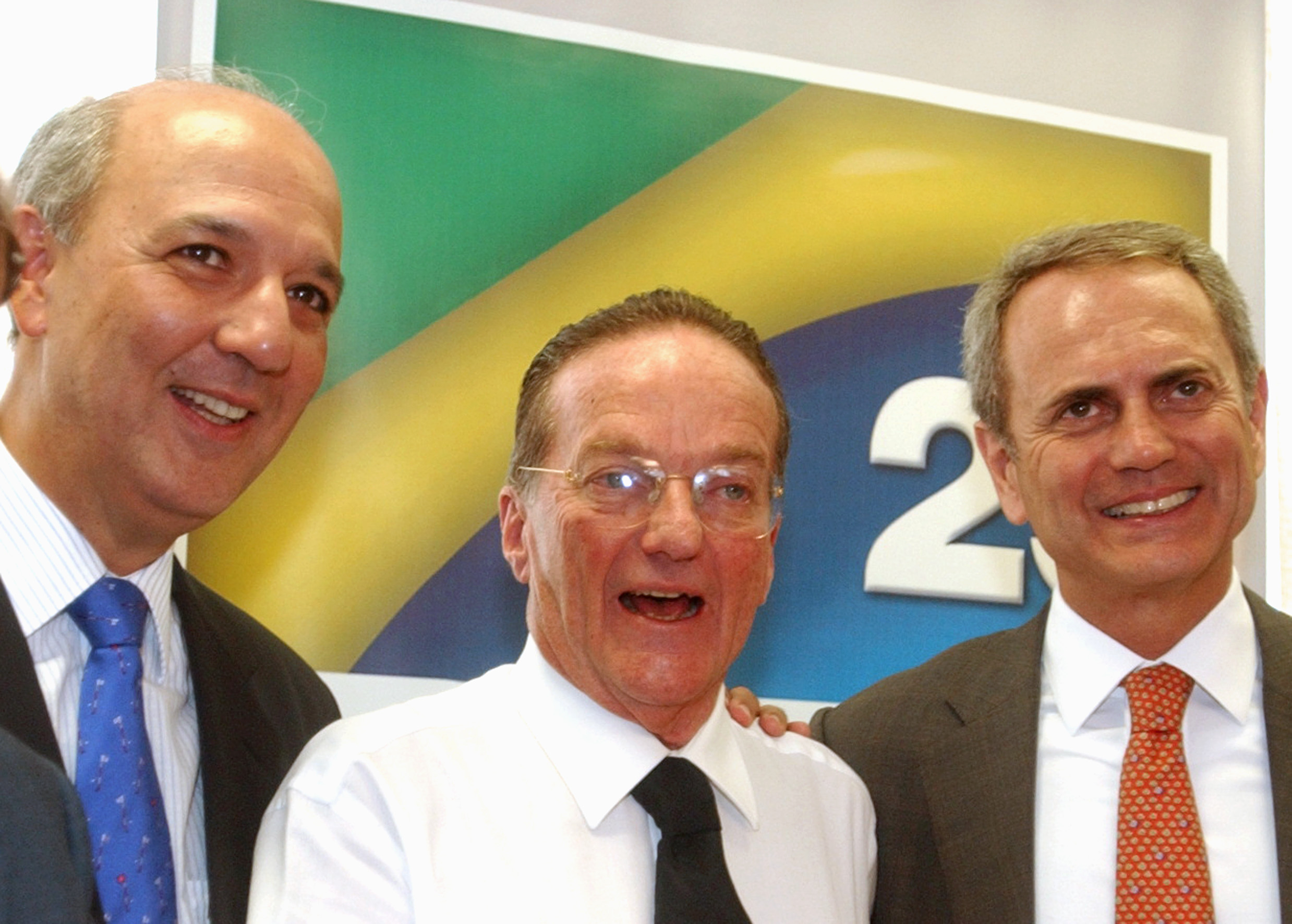 Distrito Federal elected governor, José Roberto Arruda, PFL party president, Jorge Bornhausen, and deputy governor, Paulo Octávio.